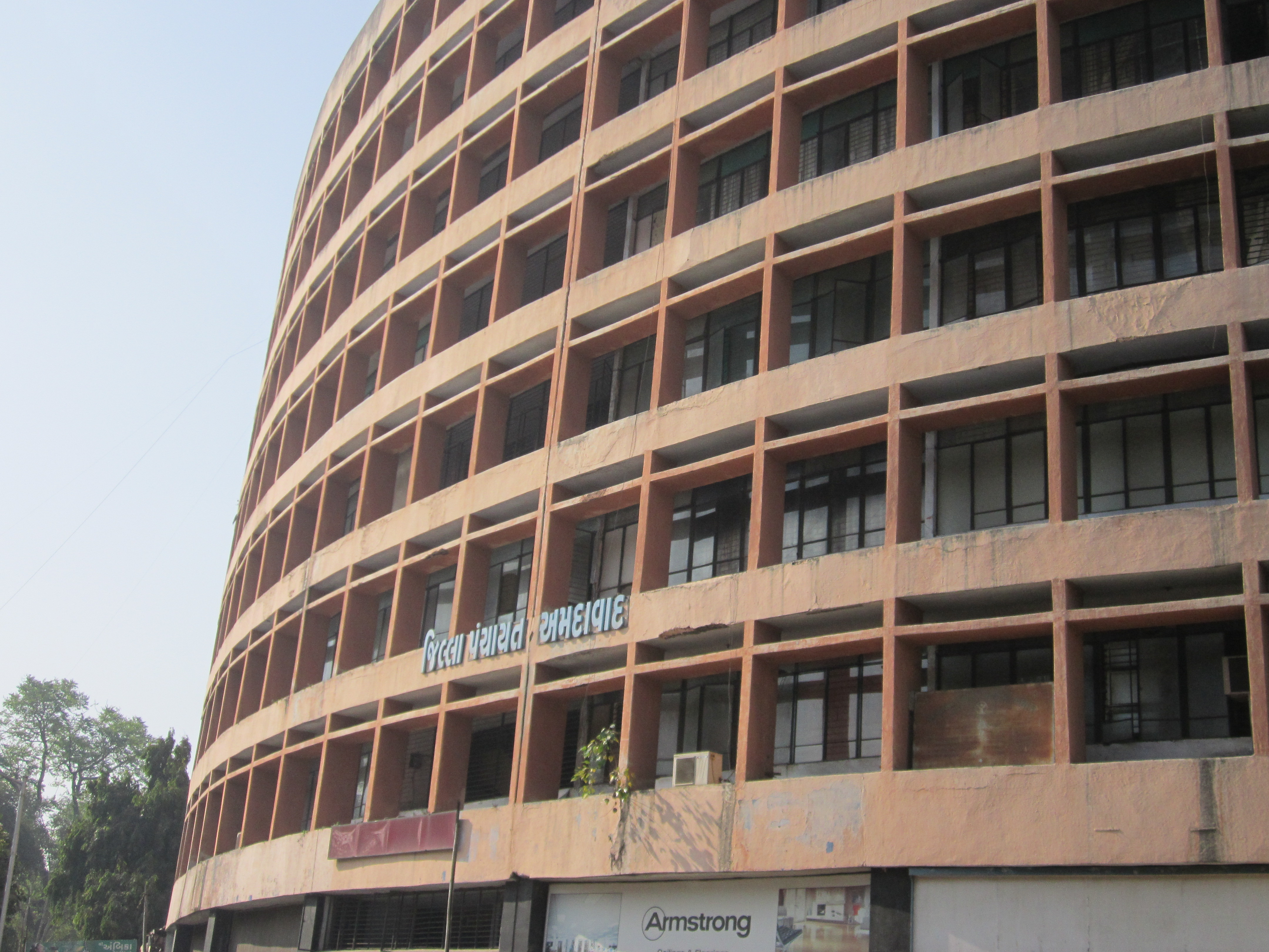 District Office..All legal work of Ahmedabad district...